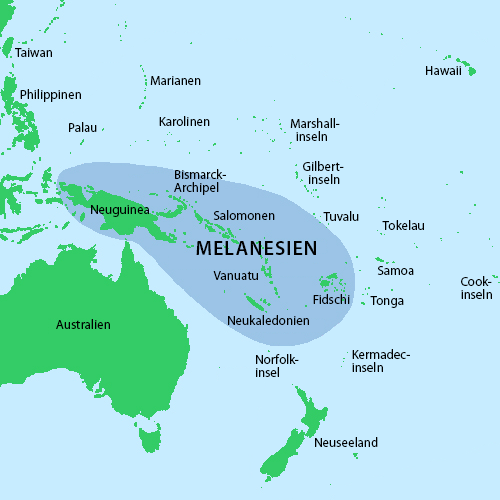 Melanesia, a cultural and geographical area in the Pacific. Melanesia